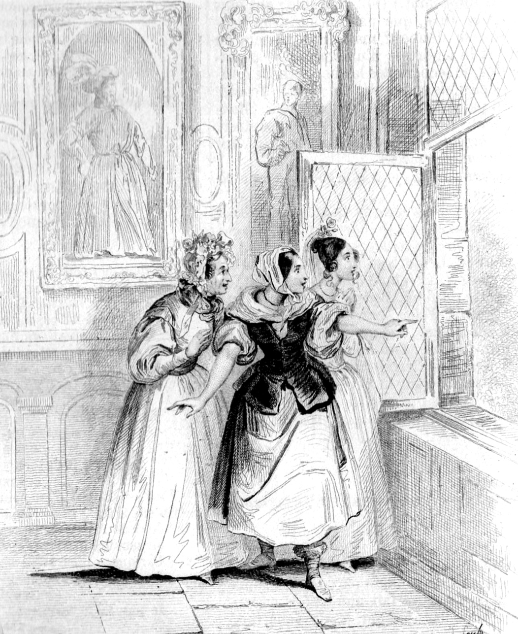 steel engraving, scene II/16 from the play Yelva by Eugène Scribe